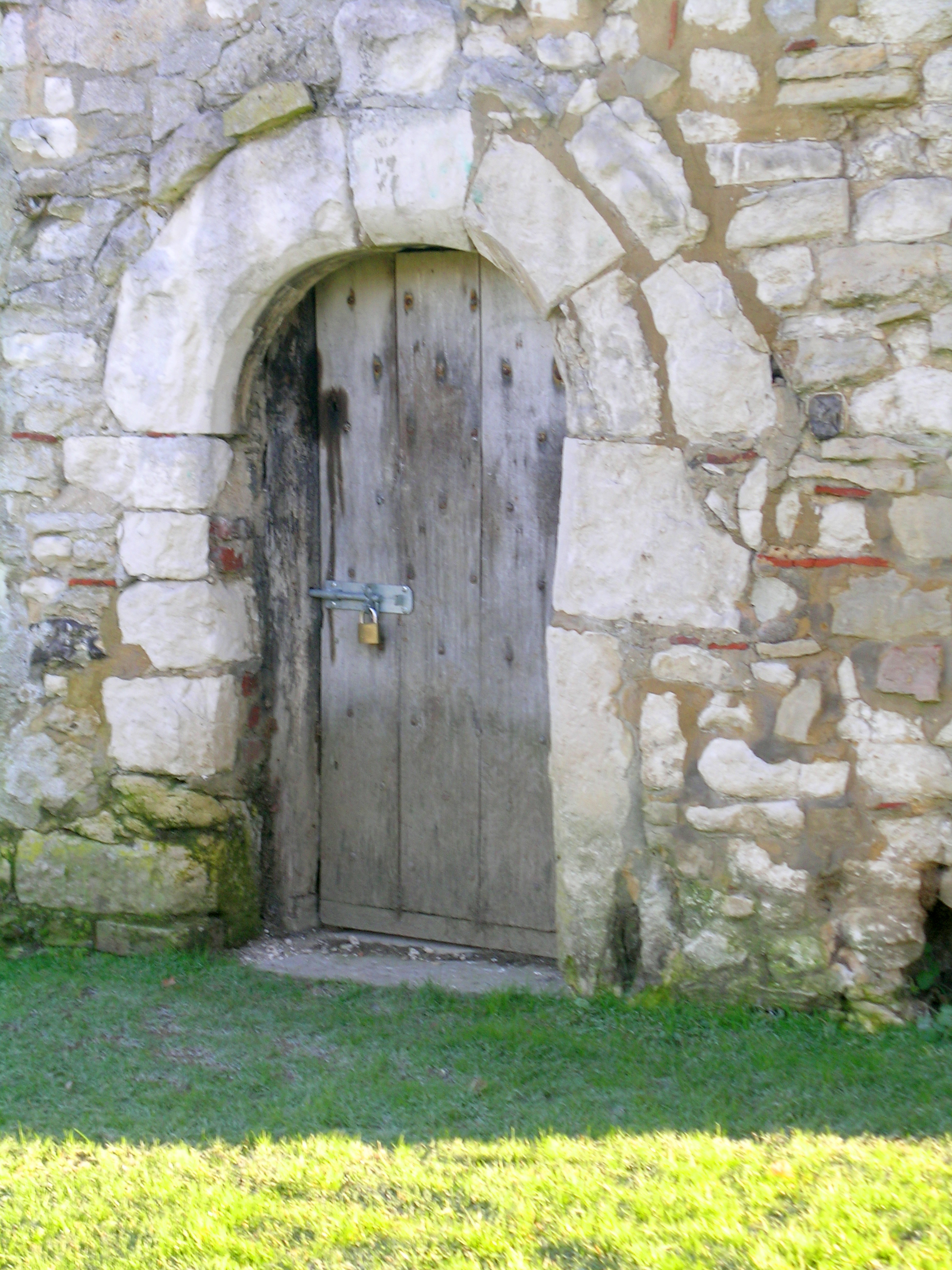 'Curious' Door on the North side of the Pigeon House near the church at Monks Risborough